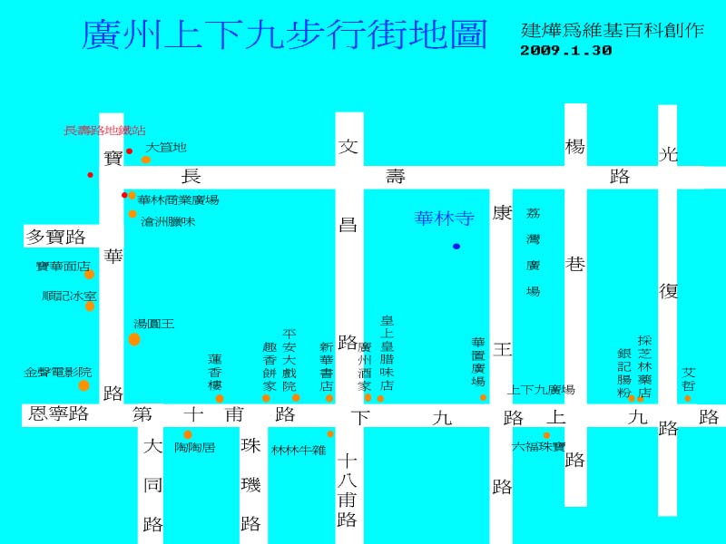 Shan xia jiu road map